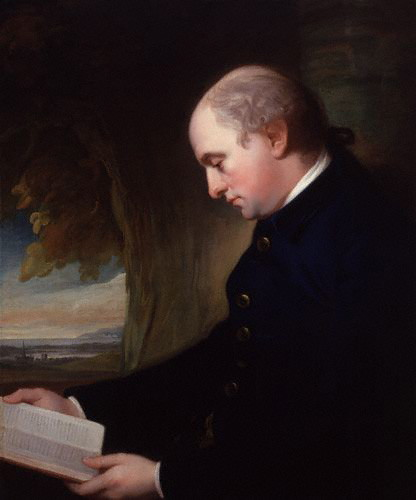 Portrait of Charles Lennox, 3rd Duke of Richmond (1735-1806)